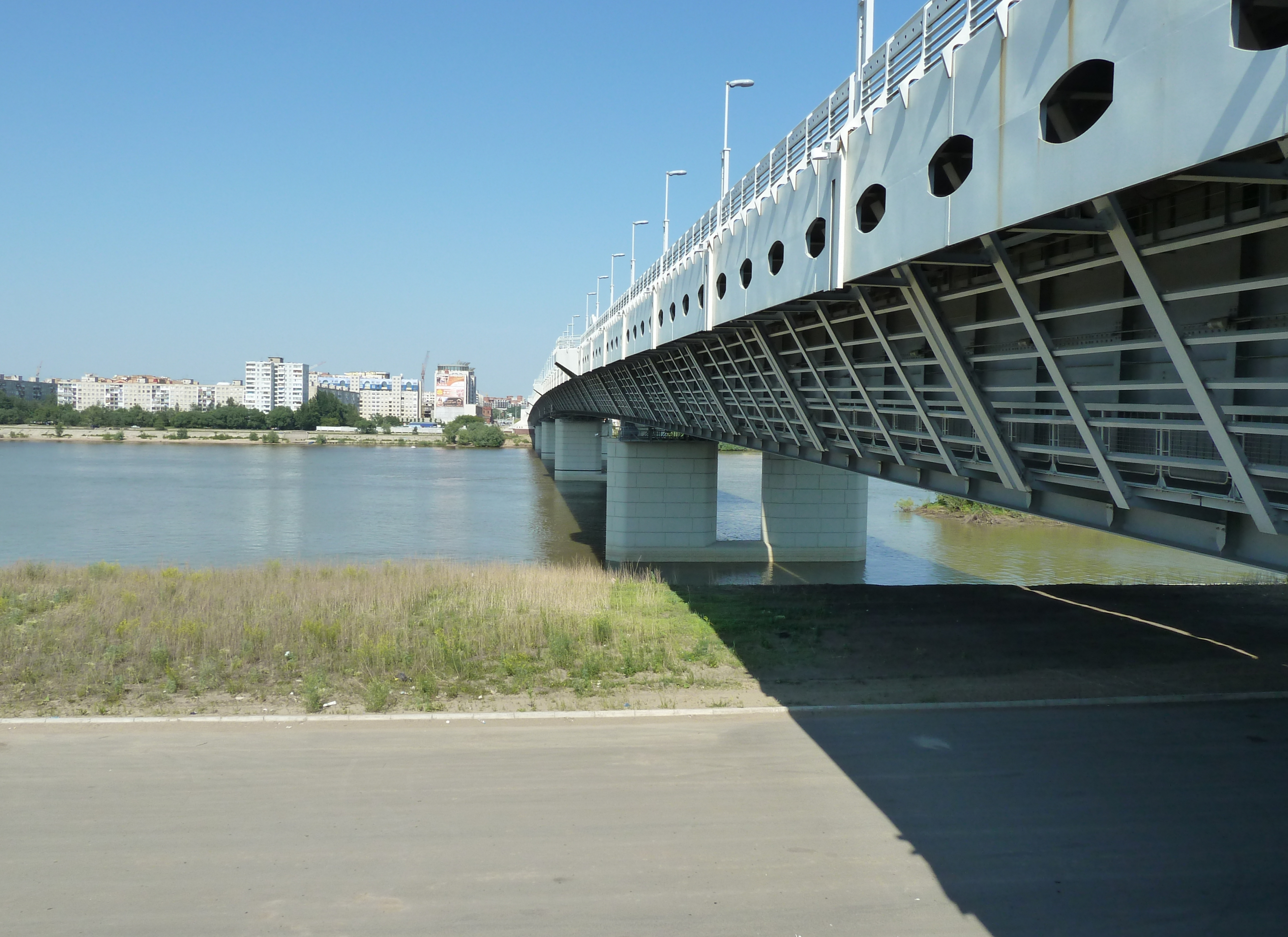 Omsk auto and metro bridge named after 60 years of Victory.